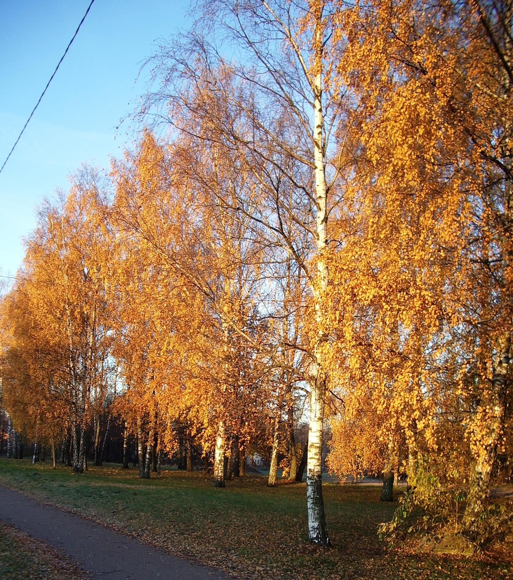 Betula pendula, Estonia